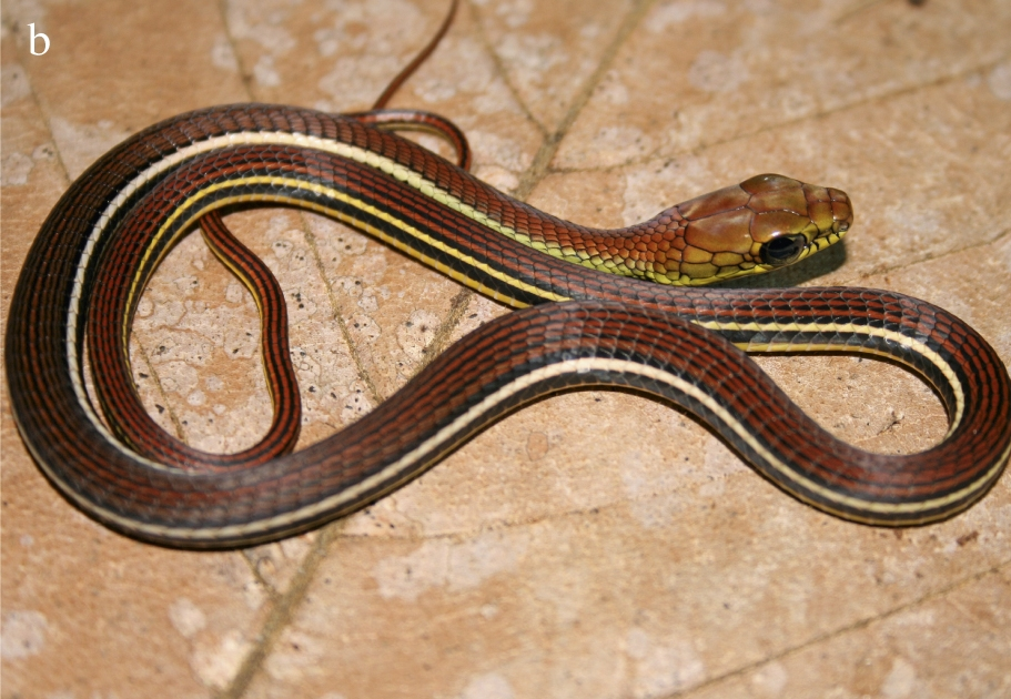 Dendrelaphis caudolineatus juvenile, from the the Santubong Peninsula (Borneo).